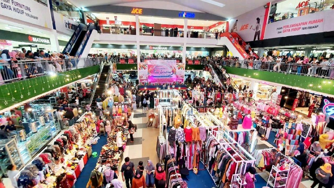 Gambar Atrium Bencoolen Mall